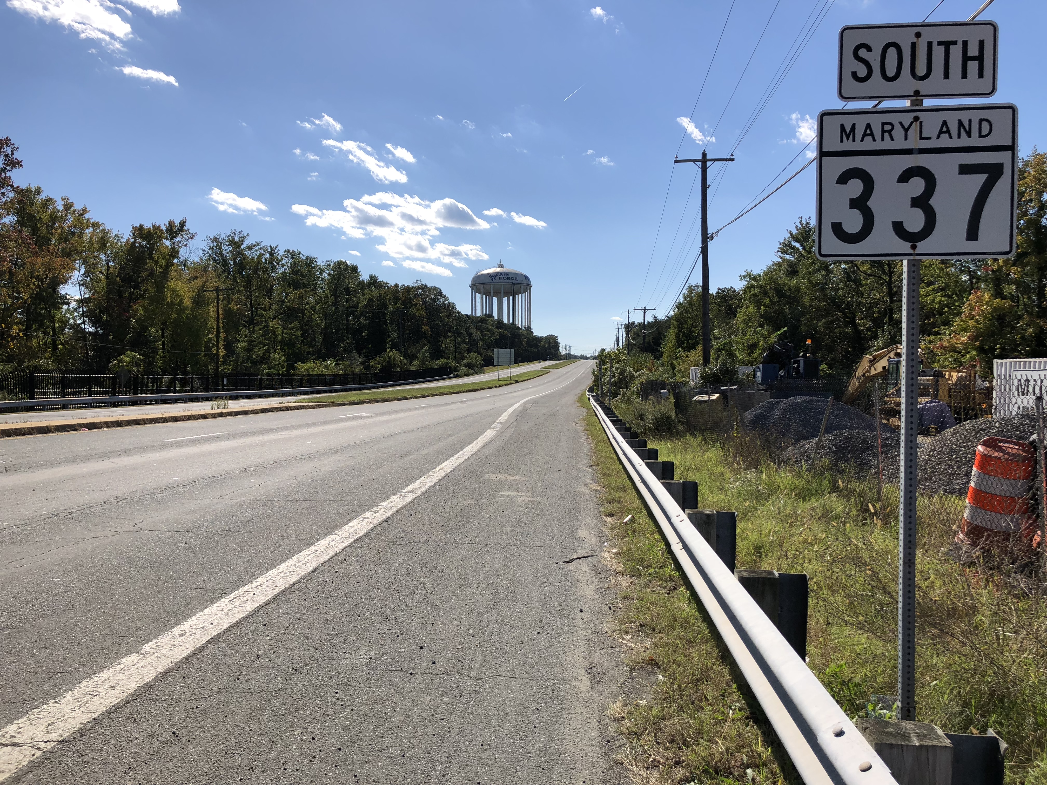 View south along Maryland State Route 337 (Allentown Road) at Forestville Road in Morningside, Prince Georges County, Maryland